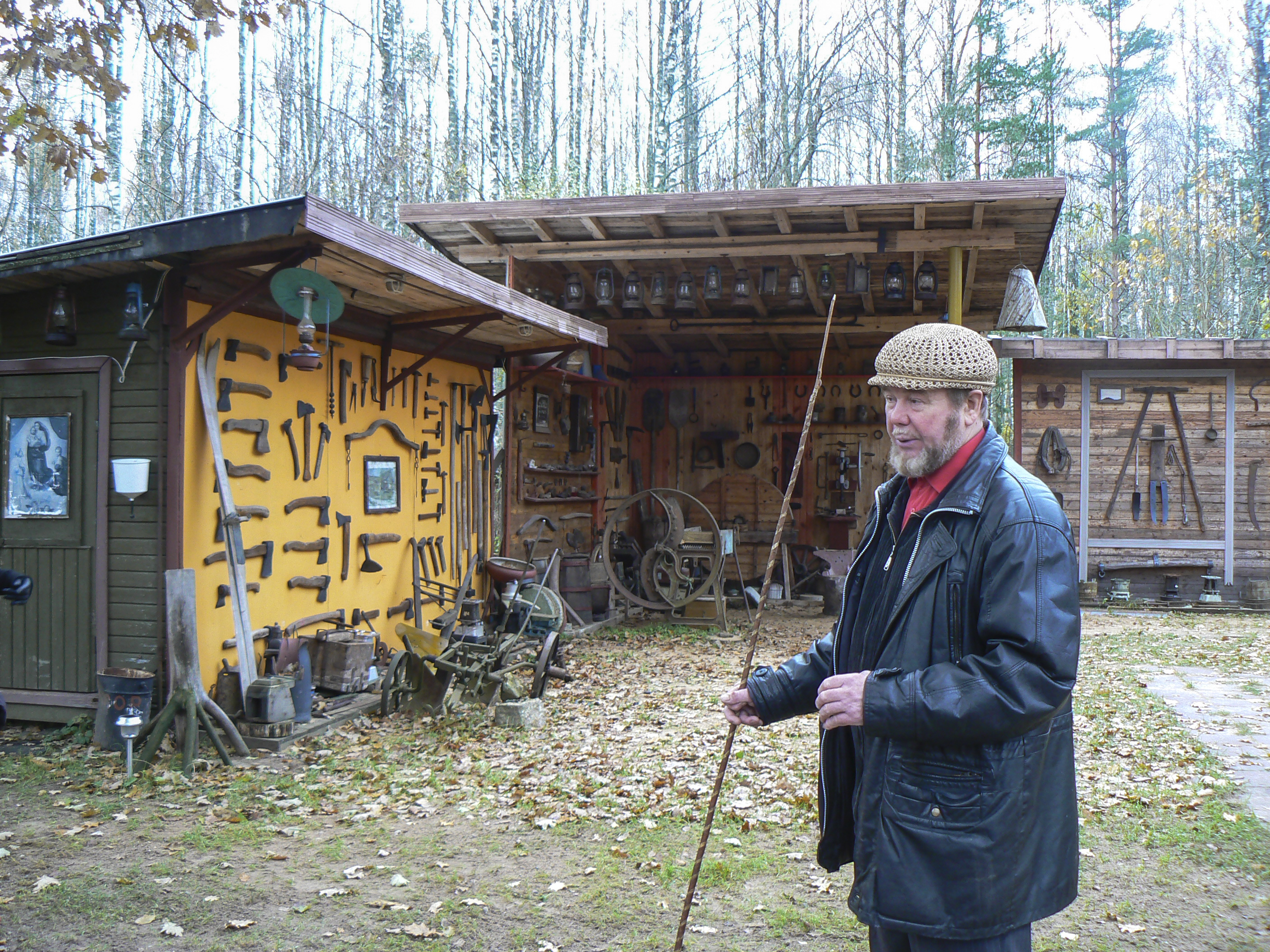 Medovy Khutorok. Glazov G. V.